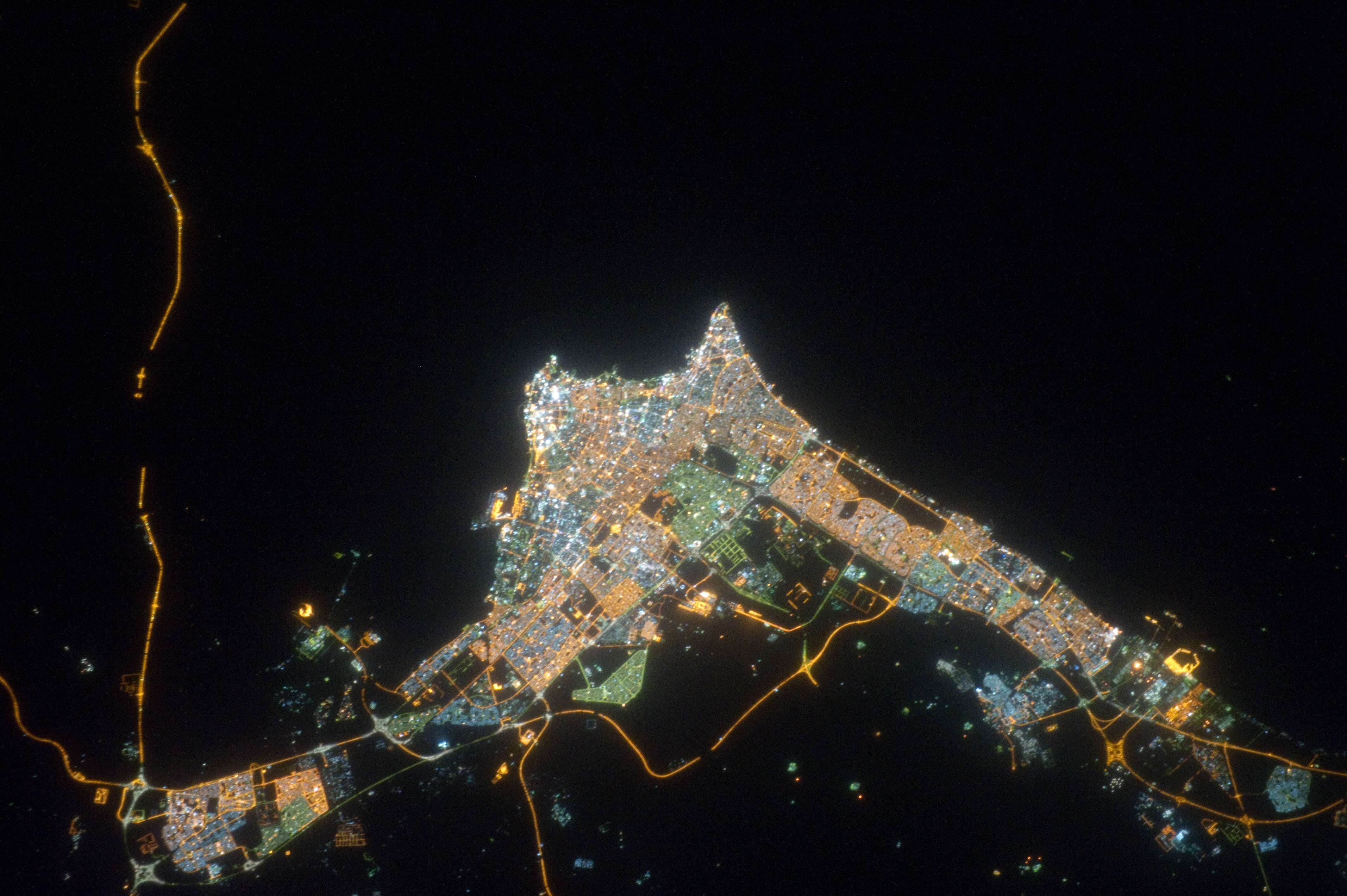 This nighttime nadir view of Kuwait City, the coastal city which serves as Kuwait's political and economic capital, was photographed by one of the Expedition 32 crew members from the International Space Station. The metropolitan area has a population approaching two and a half million. A 200-mm lens was used to record the image.